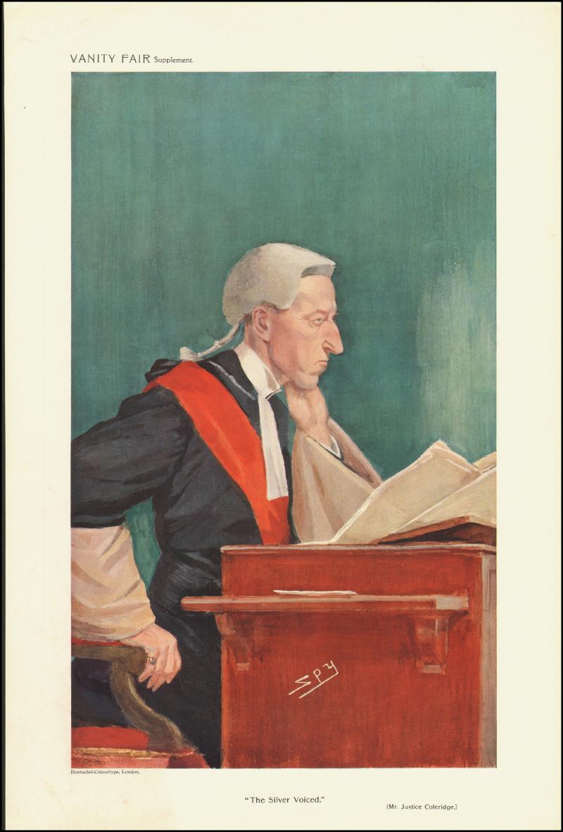 Men of the Day No.1154: Caricature of Lord Coleridge. Caption reads: "The Silver Voiced"